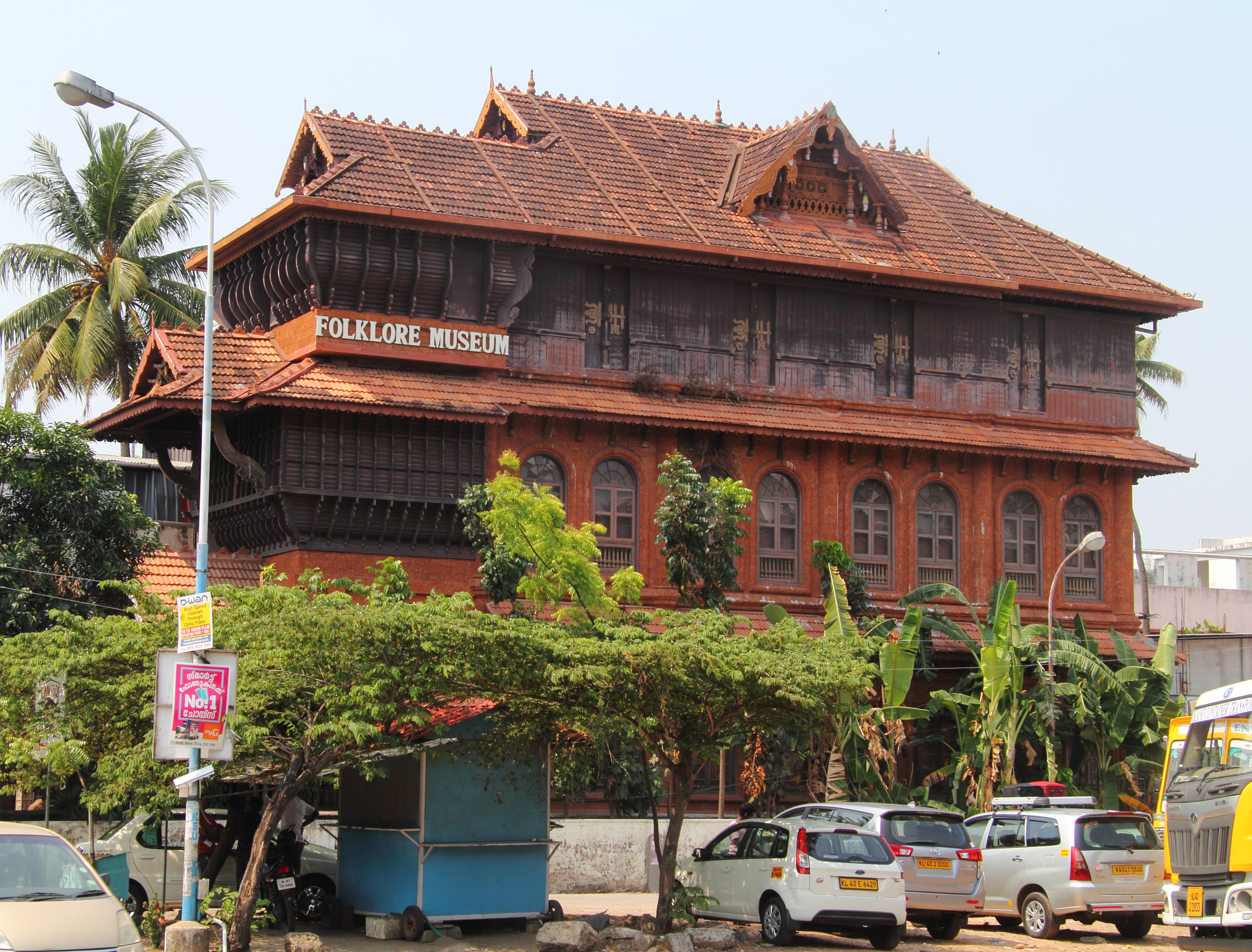 Kochi, Kerala Folklore Museum